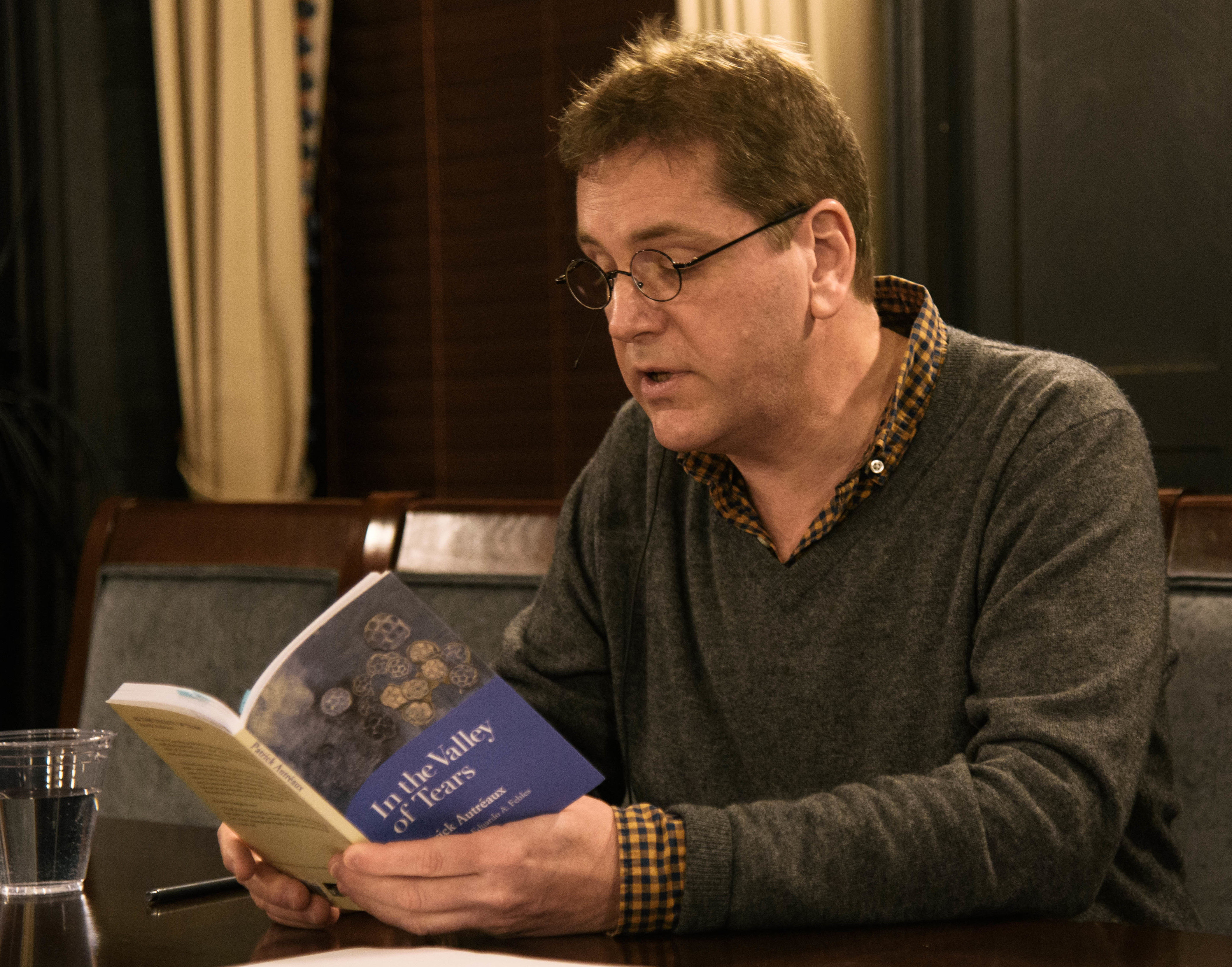 European Voices: A Reading & Conversation with Patrick Autreaux. At the Center for the Study of Europe at Boston University. Wednesday, February 26, 2020.